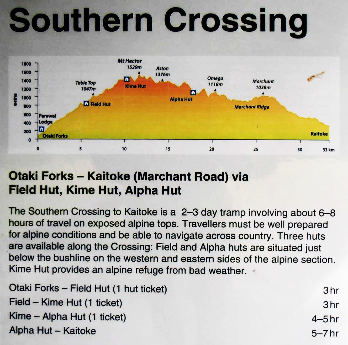 Southern Crossing diagram